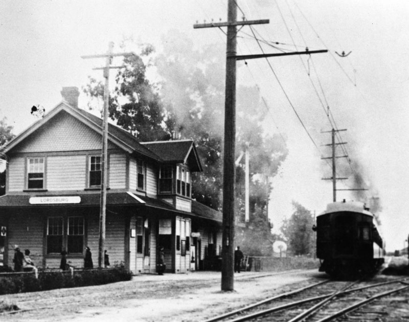 Pacific Electric station in "Lordsburg", now La Verne, California.